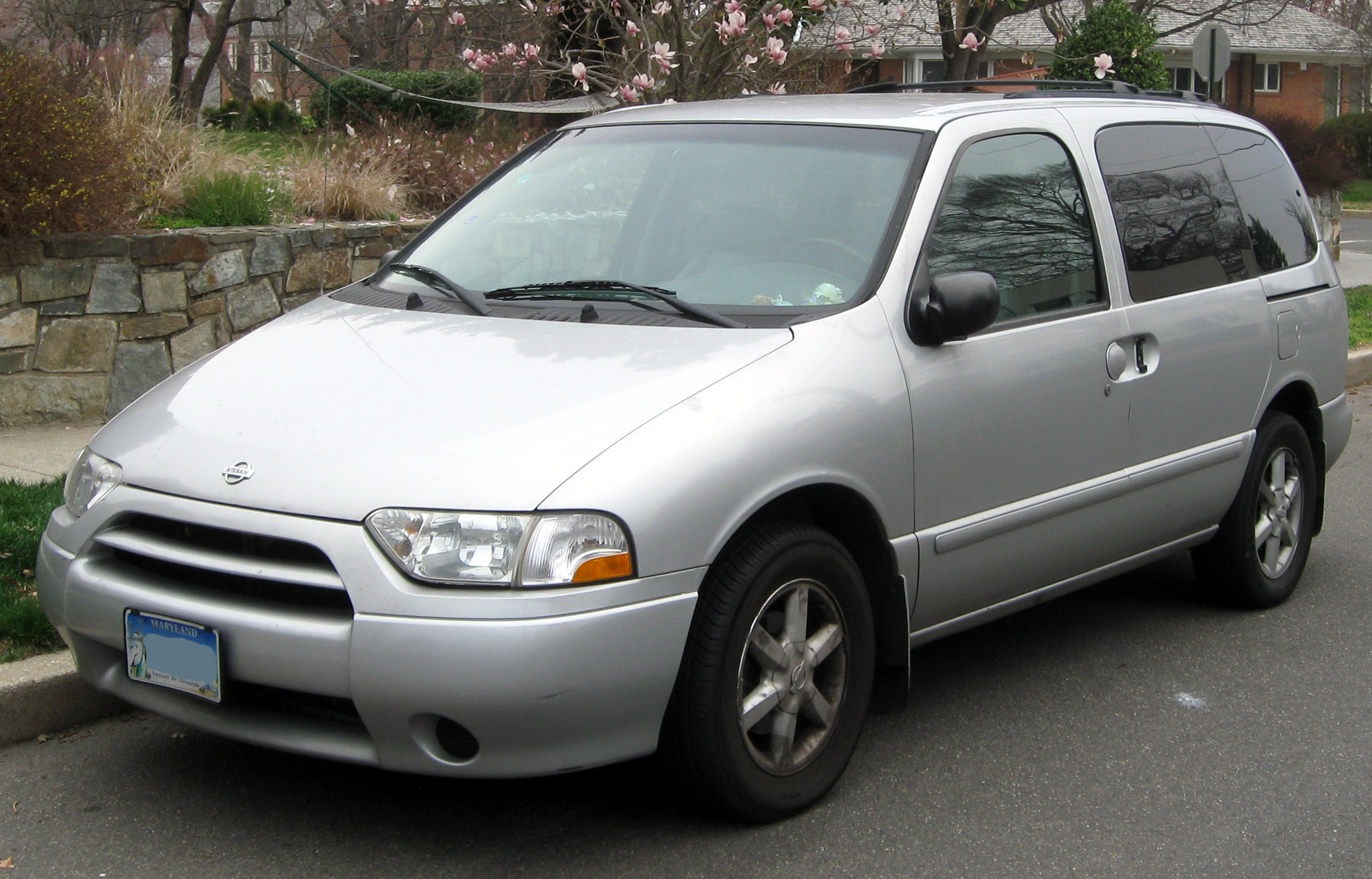 2001-2002 Nissan Quest photographed in Washington, D.C., USA.